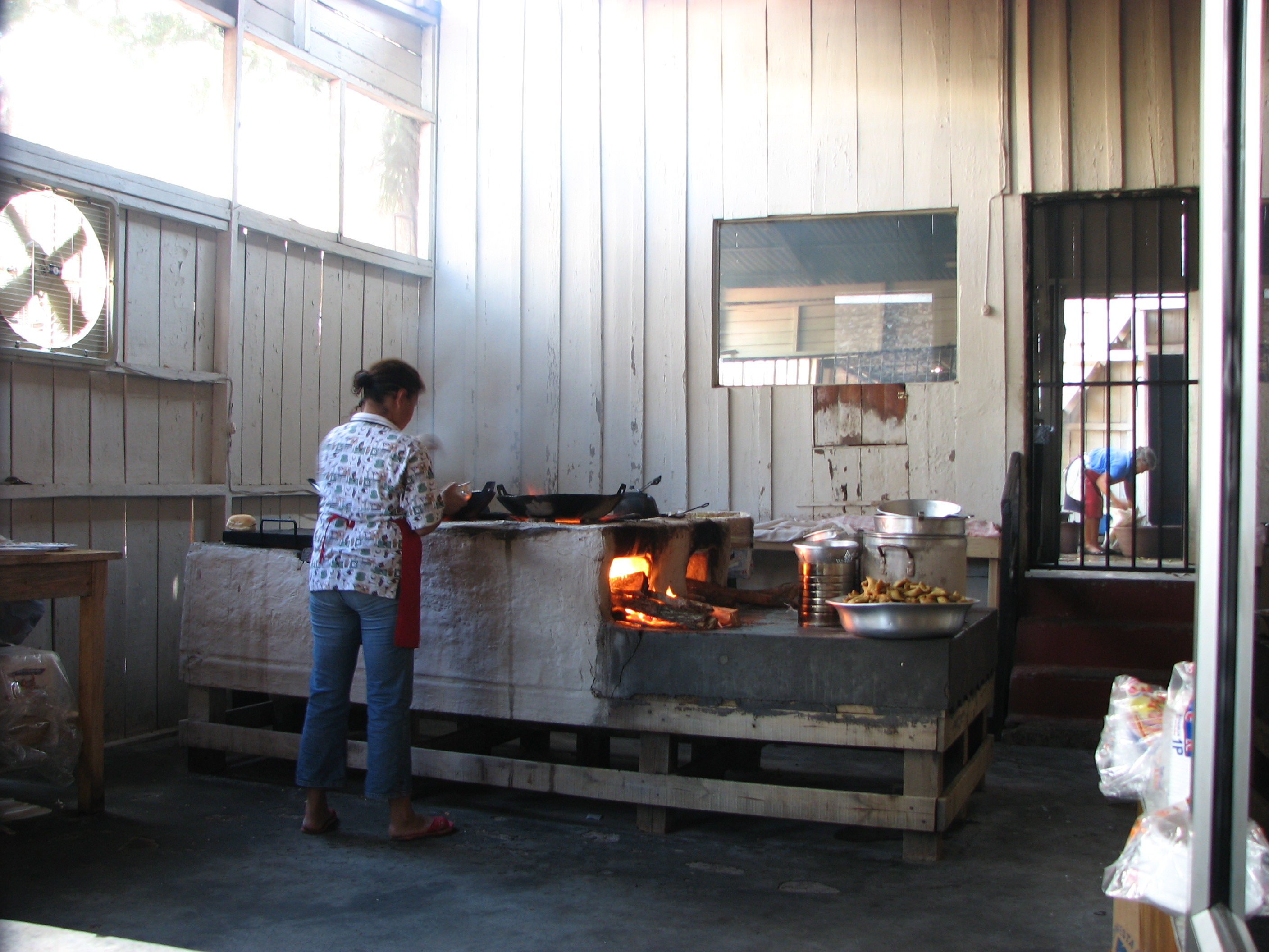 Restaurant in Tegucigalpa